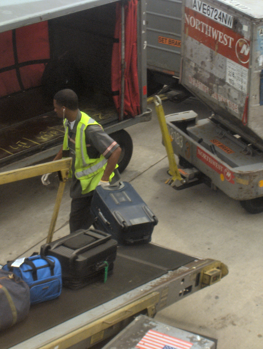 A baggage handler unloading bags from the motorized ramp underneath an recently-landed airplane in Detroit, Michigan.